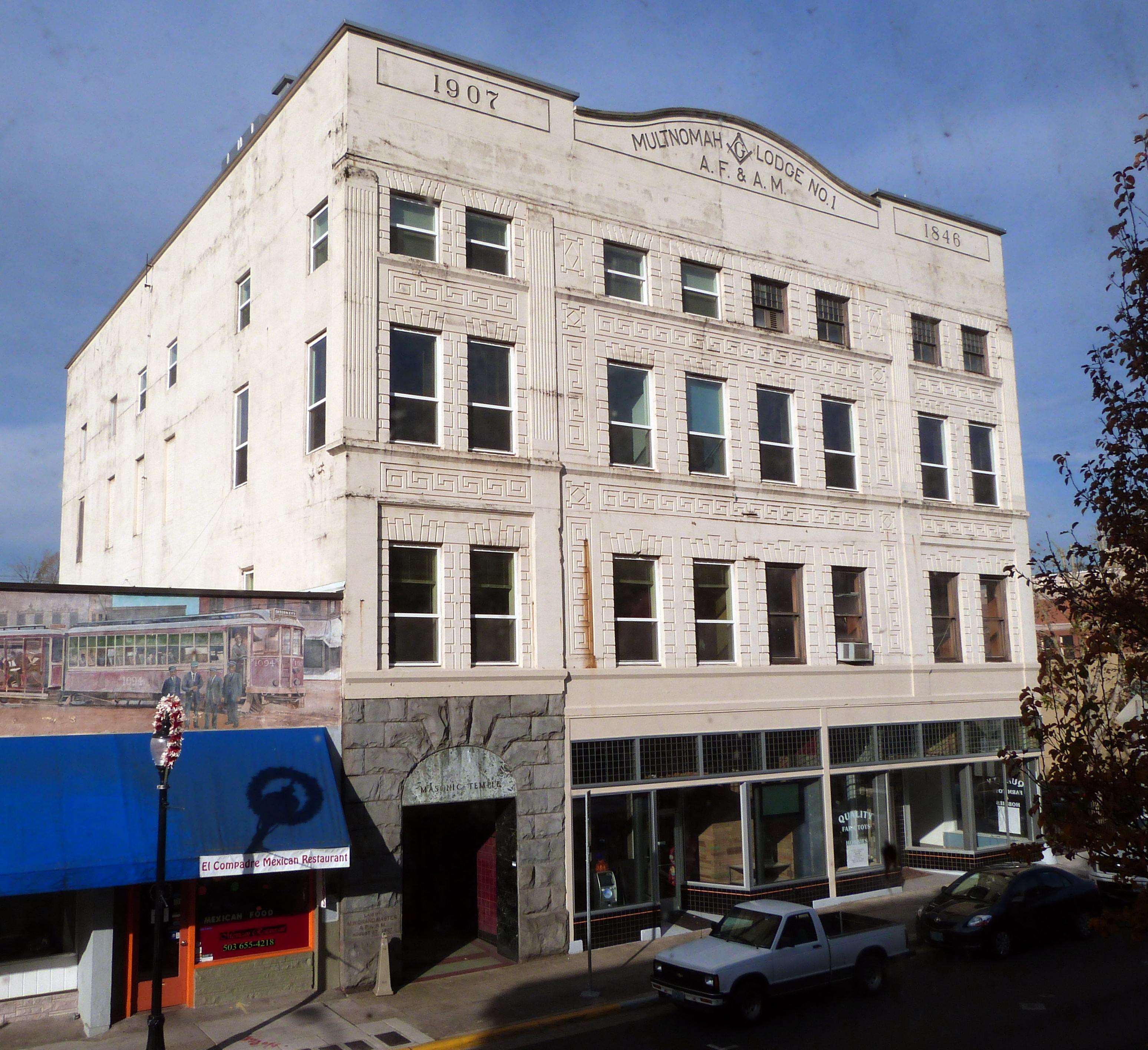 The historic Oregon City Masonic Lodge (built 1907), located at 707 Main Street in Oregon City, Oregon, United States, was nominated to the US National Register of Historic Places but only determined eligible for listing, not actually listed.